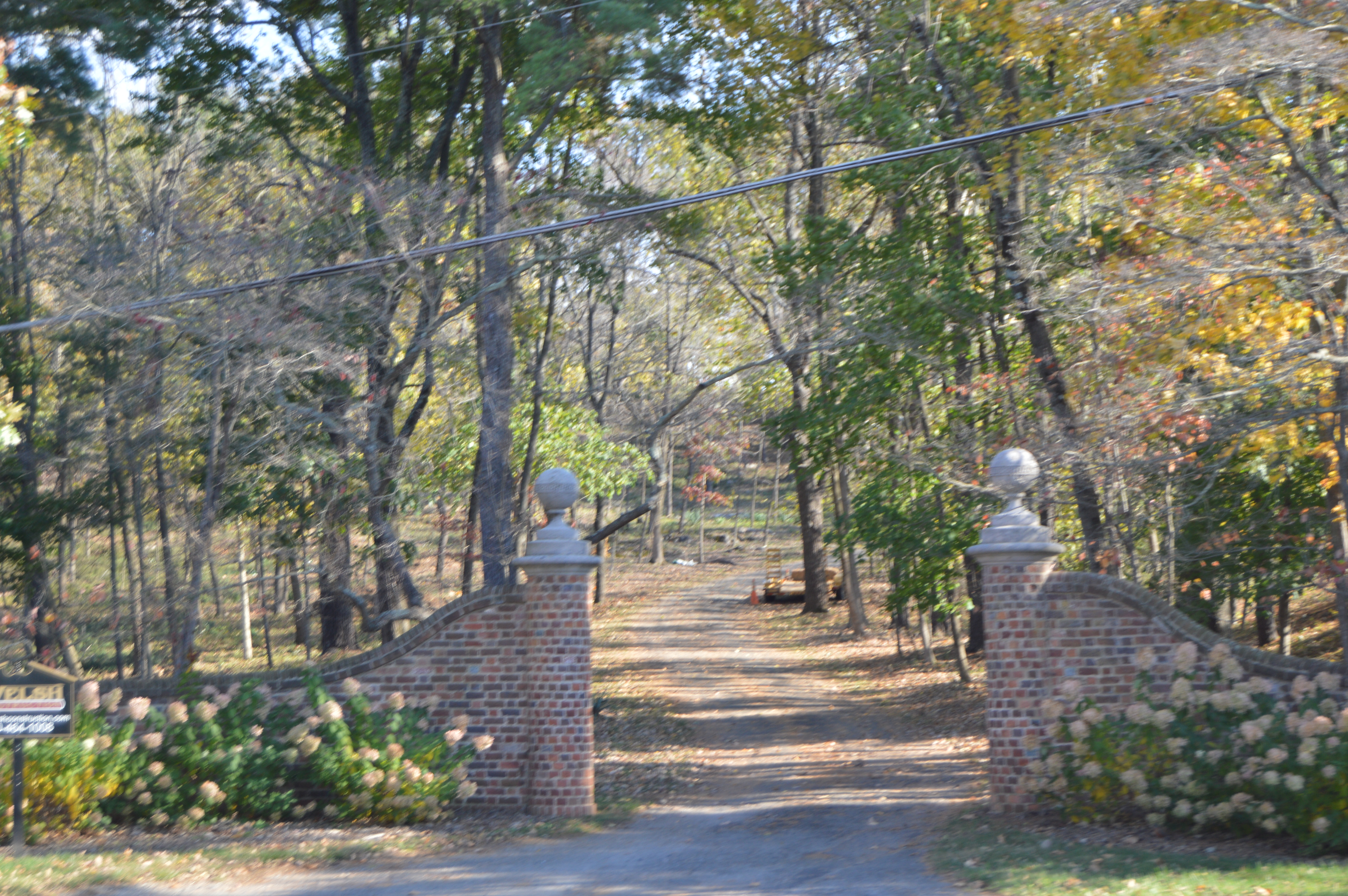 Gates at the entrance to the Waverly Hill estate, located at 3001 N. Augusta Street in Staunton, Virginia, United States. The estate is listed on the National Register of Historic Places.